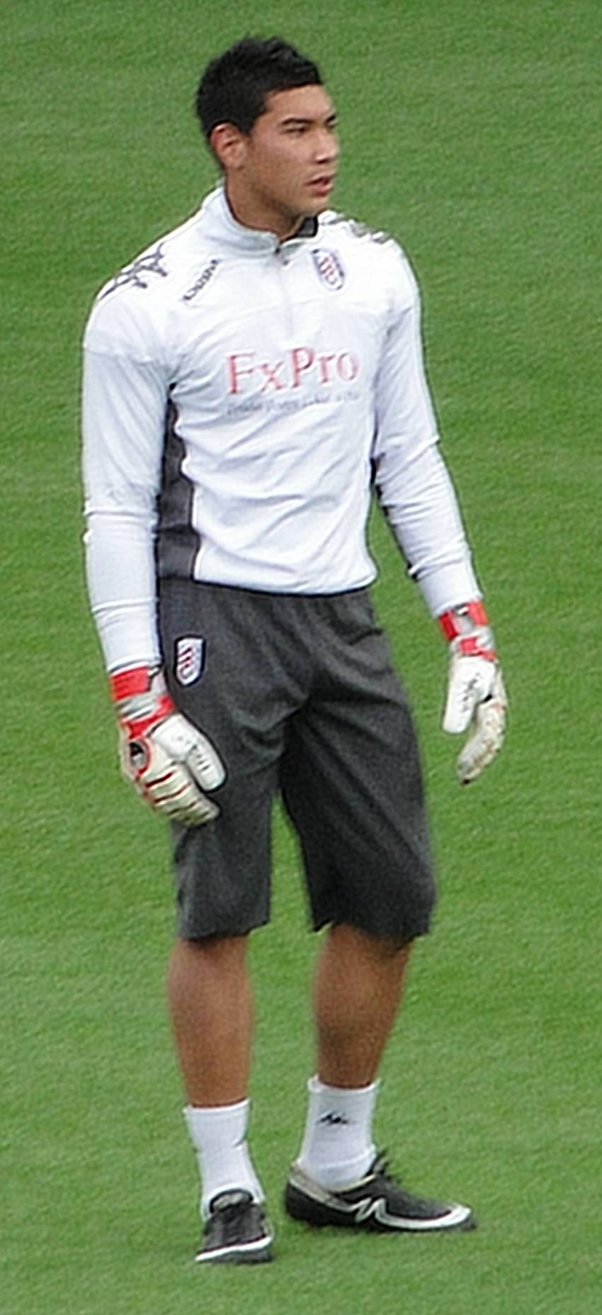 Fulham goalkeeper Neil Etheridge warming-up before their game at Upton Park against West Ham on 2/10/2010 - he was substitute to Mark Schwarzer but didn't play.